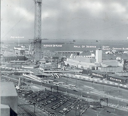 Illustrates Chicago Century of Progress fair site, 1933-1934